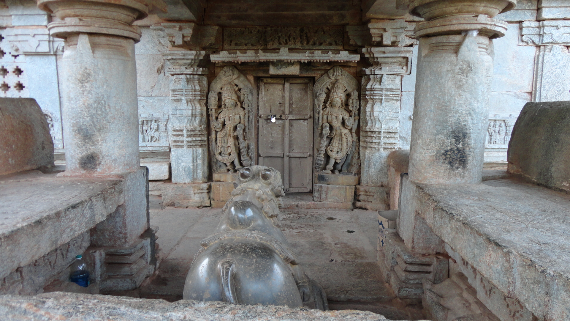 This is the focused coverage of one of the entrance (among two similar) of the Panchlingeshvara temple, Govindanahalli, Mandya, Karnataka. In front of both the entrance, a sitting bull facing towards the entrance door can be seen. Two idols are placed on each side of the doors who are the guards for the housing of the Lord Shiva.